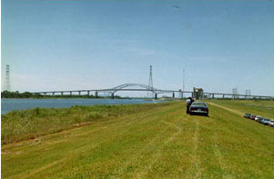 The levee upon which TACA flight 110 landed. Date is approximate.